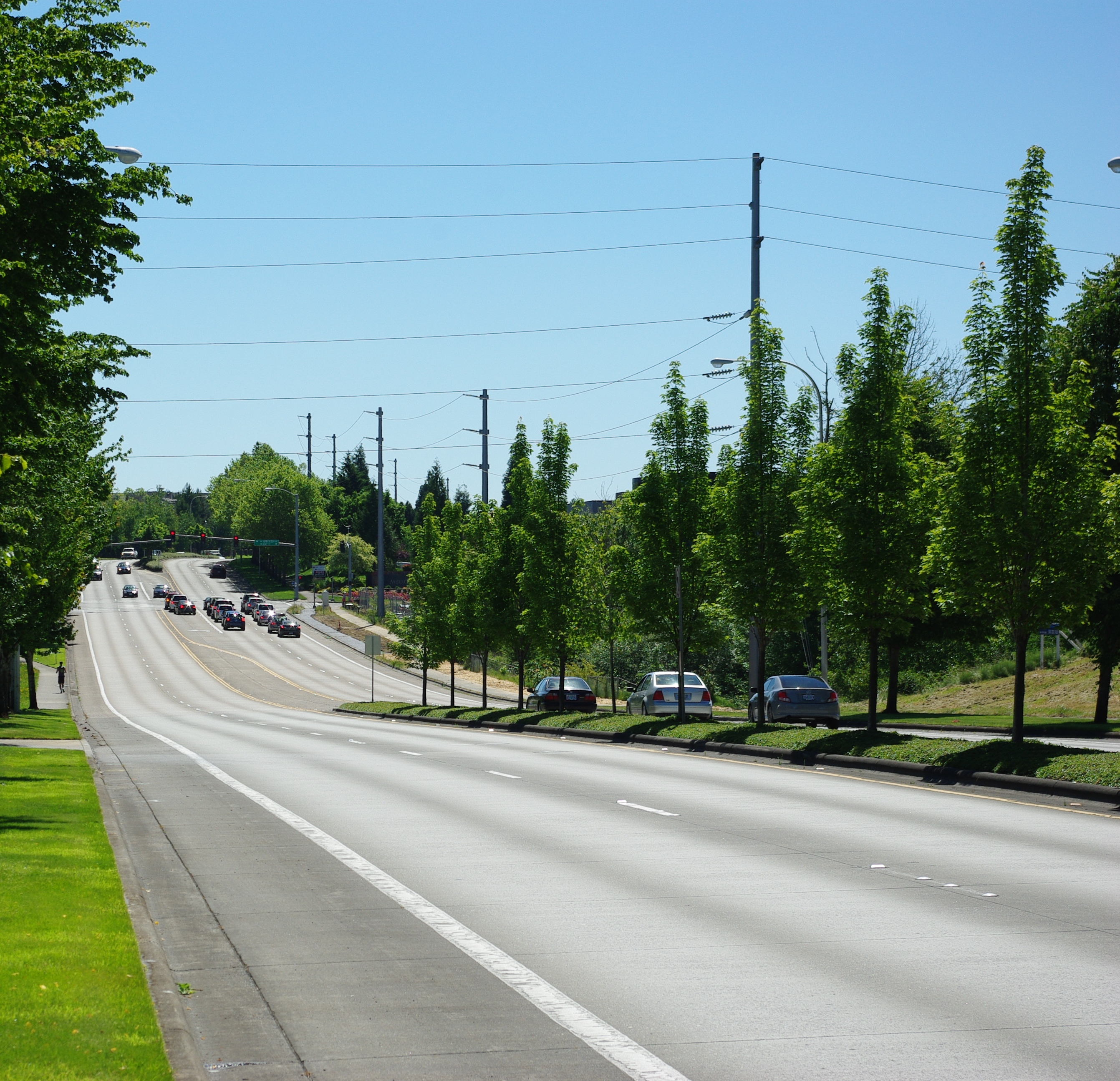 Cornell Road near Aloclek Drive looking east in Hillsboro, Oregon.